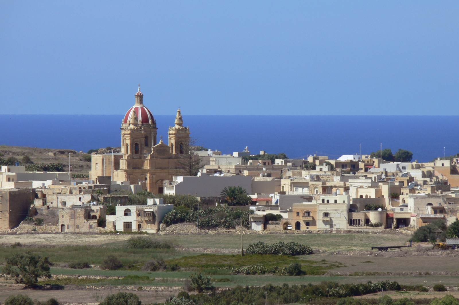 Għasri seen from the Citadel